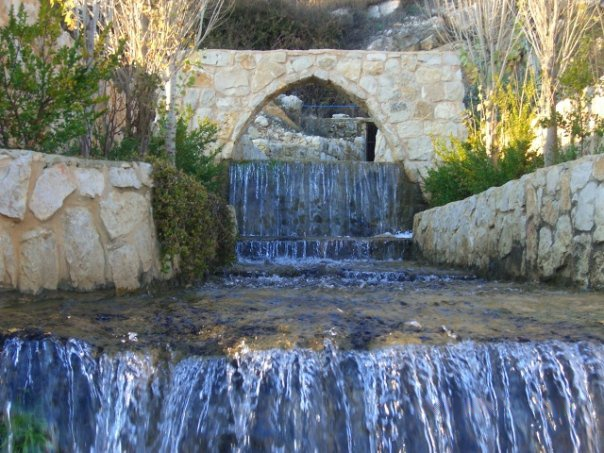 Water.